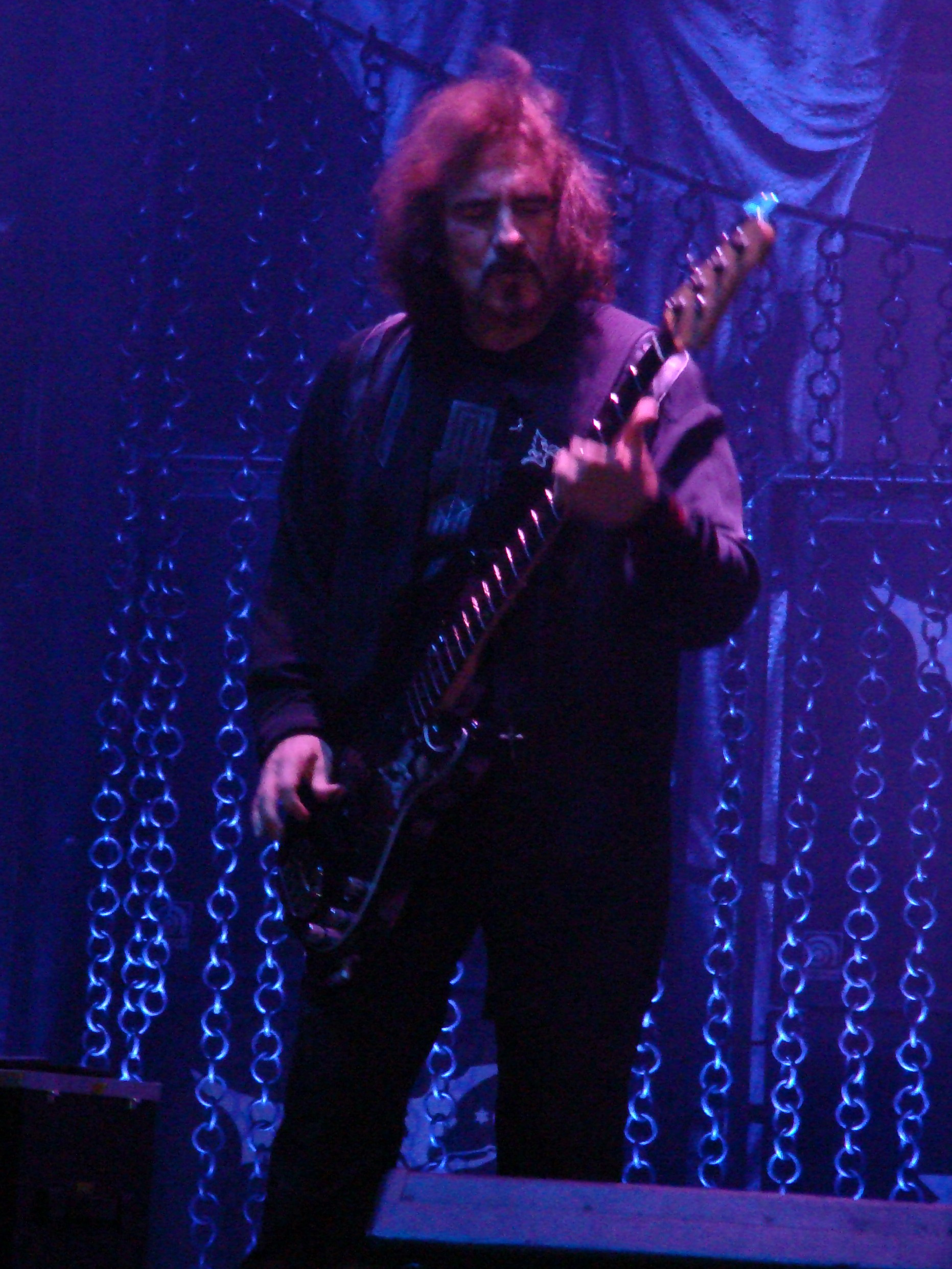 Geezer Butler playing live at Gods Of Metal 2009.